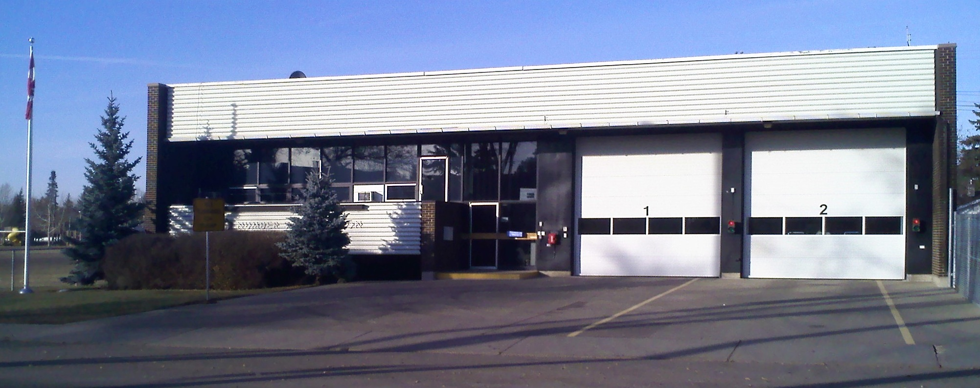 South face of Edmonton Fire Station Number Three at 11226 76 Avenue, Edmonton.